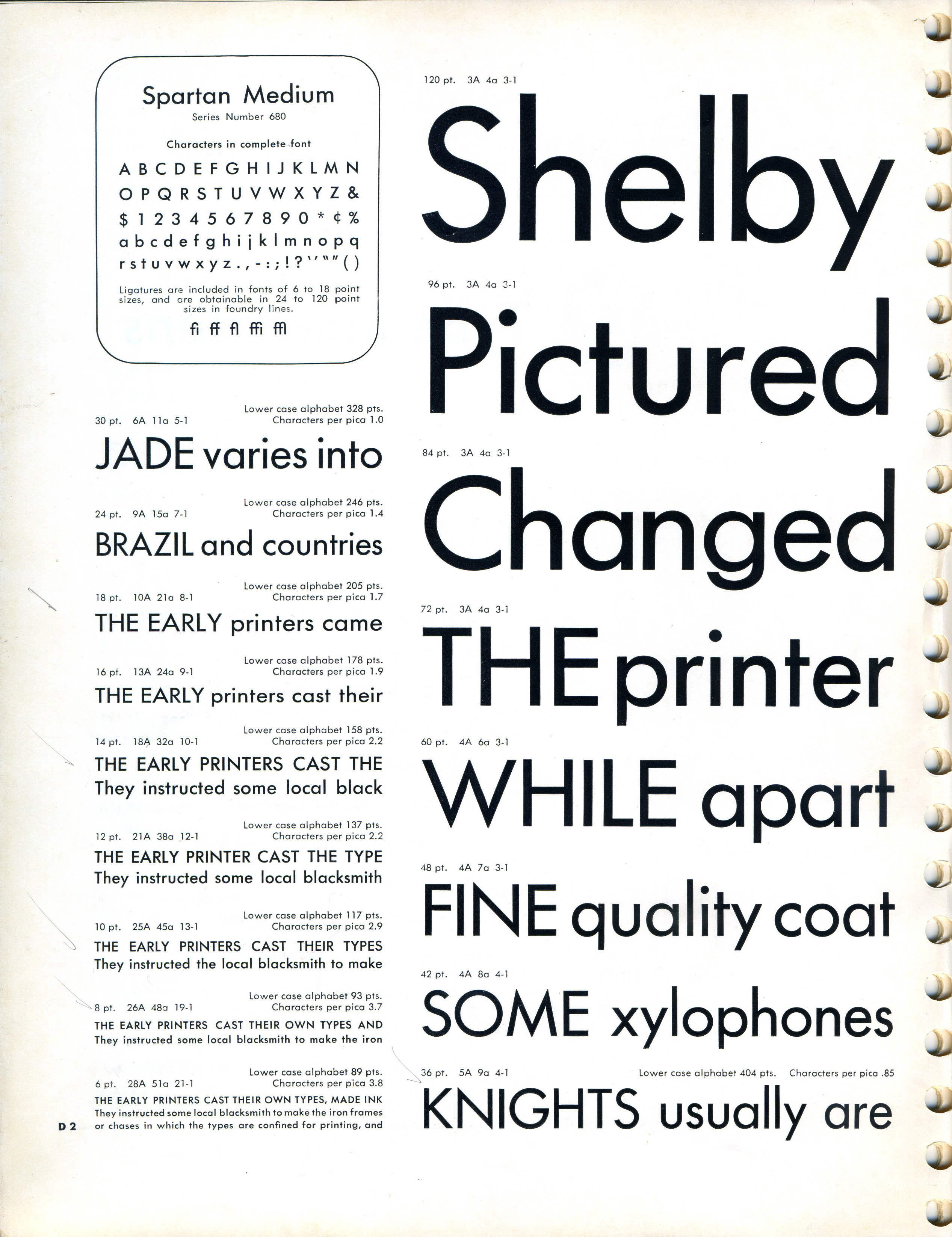 See more vintage type specimens at